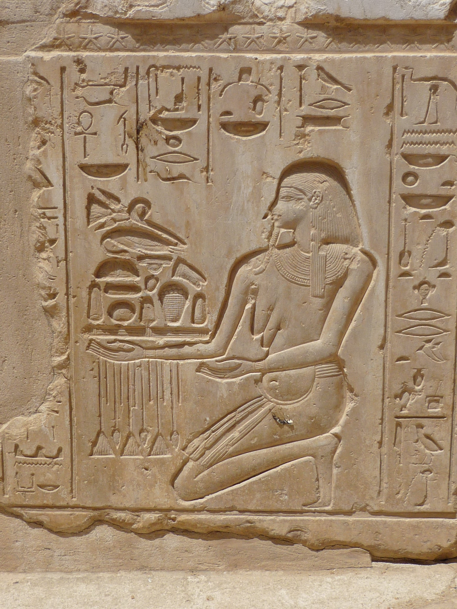 Relief of Hapy, mortuary temple of Ramses III, Medinet Habu, Theban Necropolis, Egypt